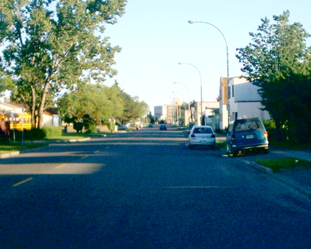 Looking south on Grenville Avenue in Thunder Bay